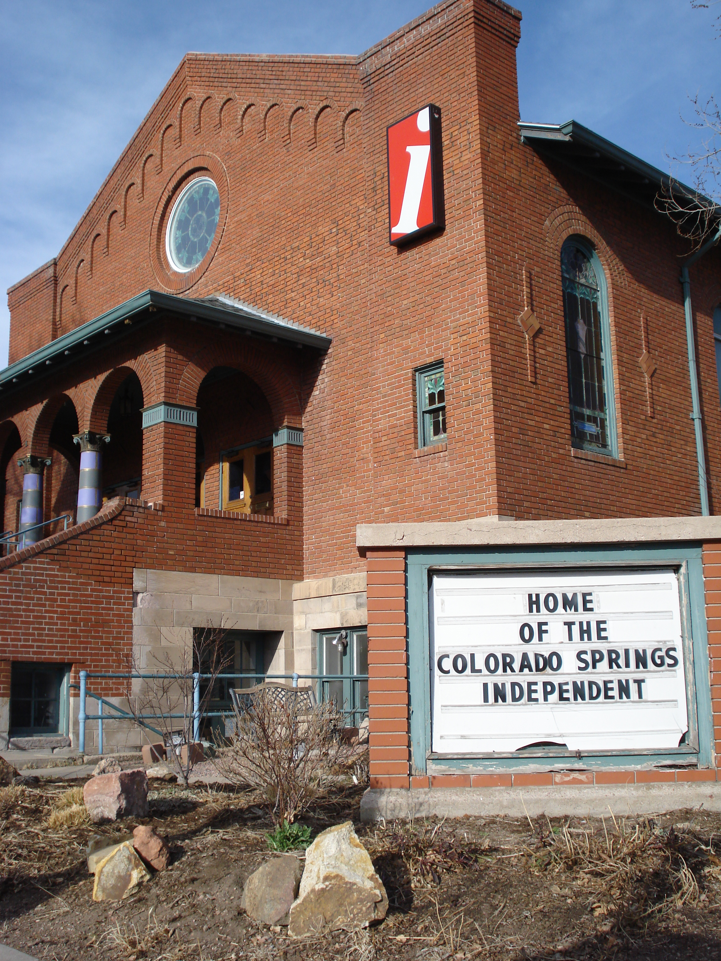 The Indy's office in downtown Colo Spgs. This is the former United Brethren Church.